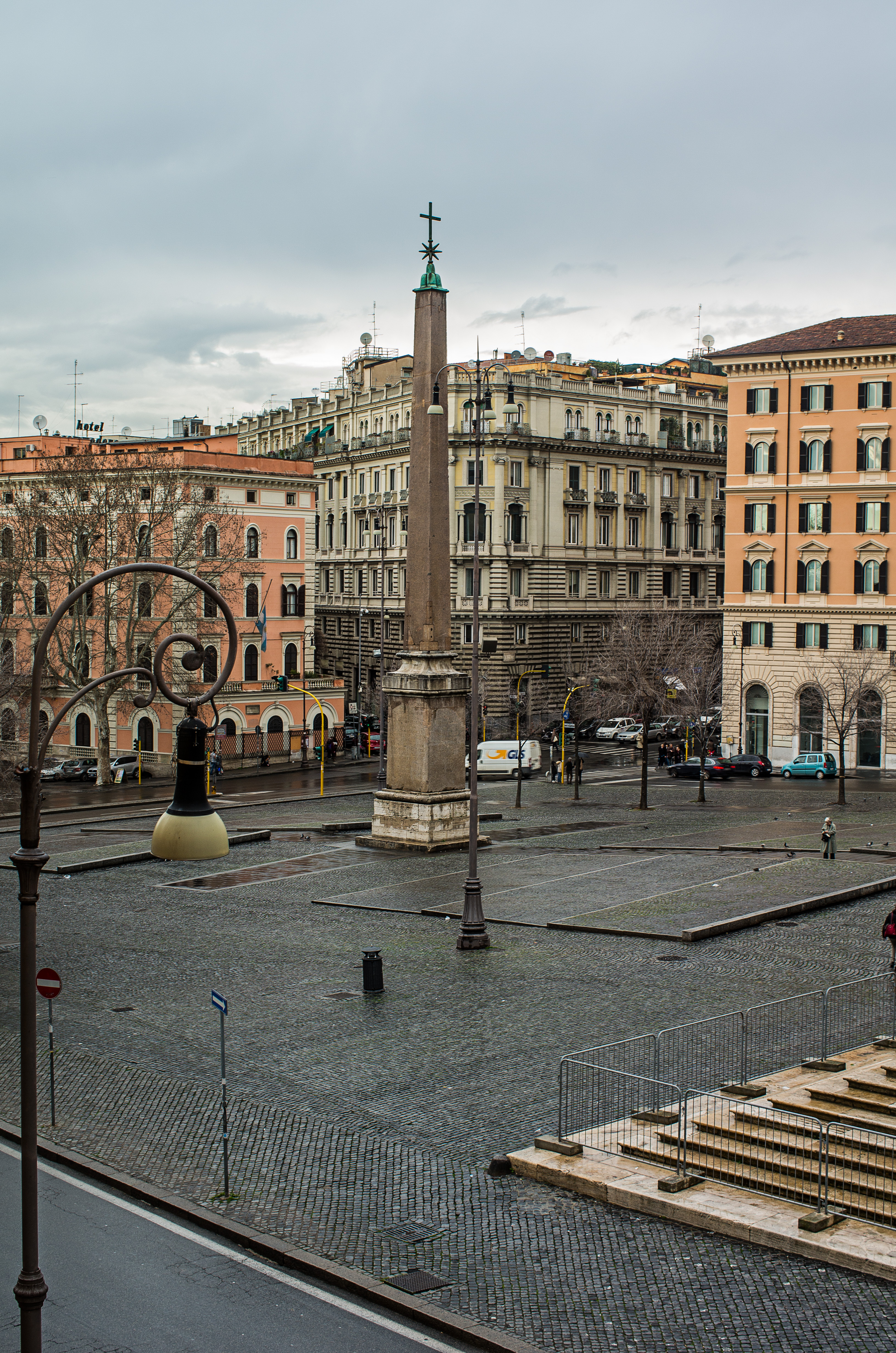 Piazza dell’Esquilino with obelisk